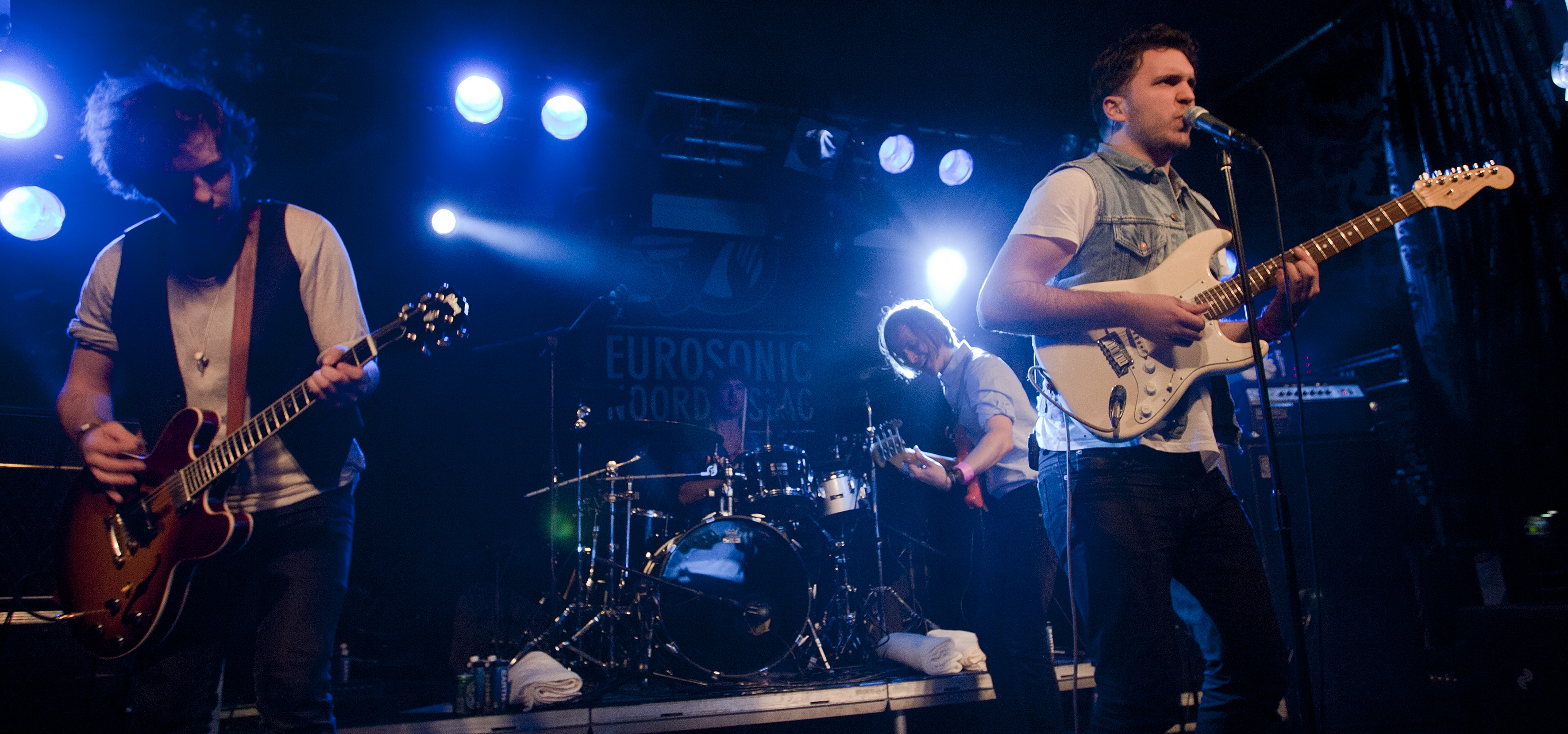 Go Back to the Zoo, also known as GBTTZ was a Dutch pop rock band.